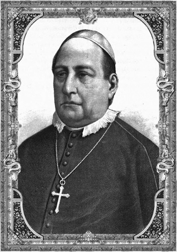 Self-portrait of Juan Bautista de Ormaechea, Lithograph (1870-1907).